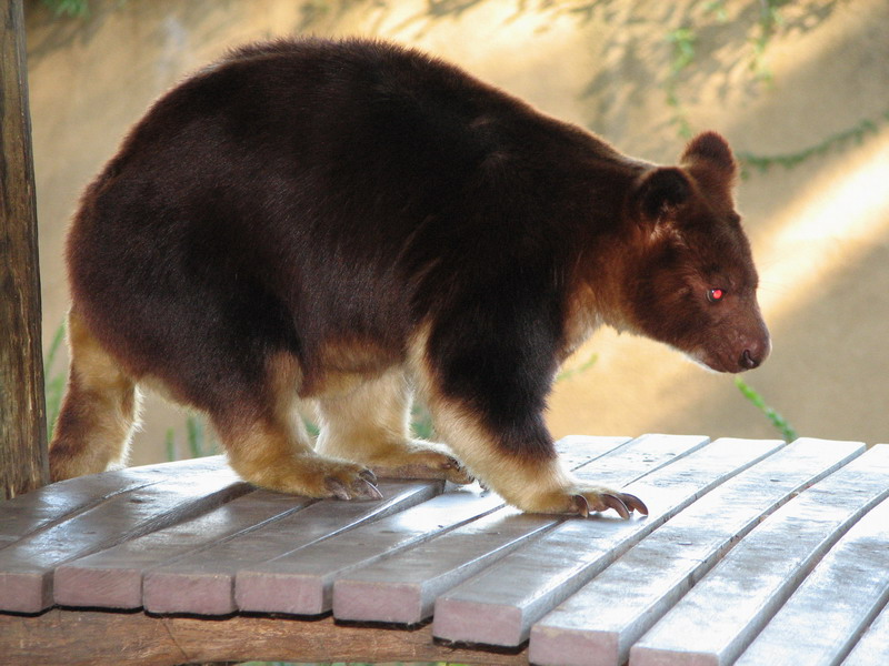 Buergers' Tree-kangaroo (Dendrolagus goodfellowi buergersi) at the San Diego Zoo